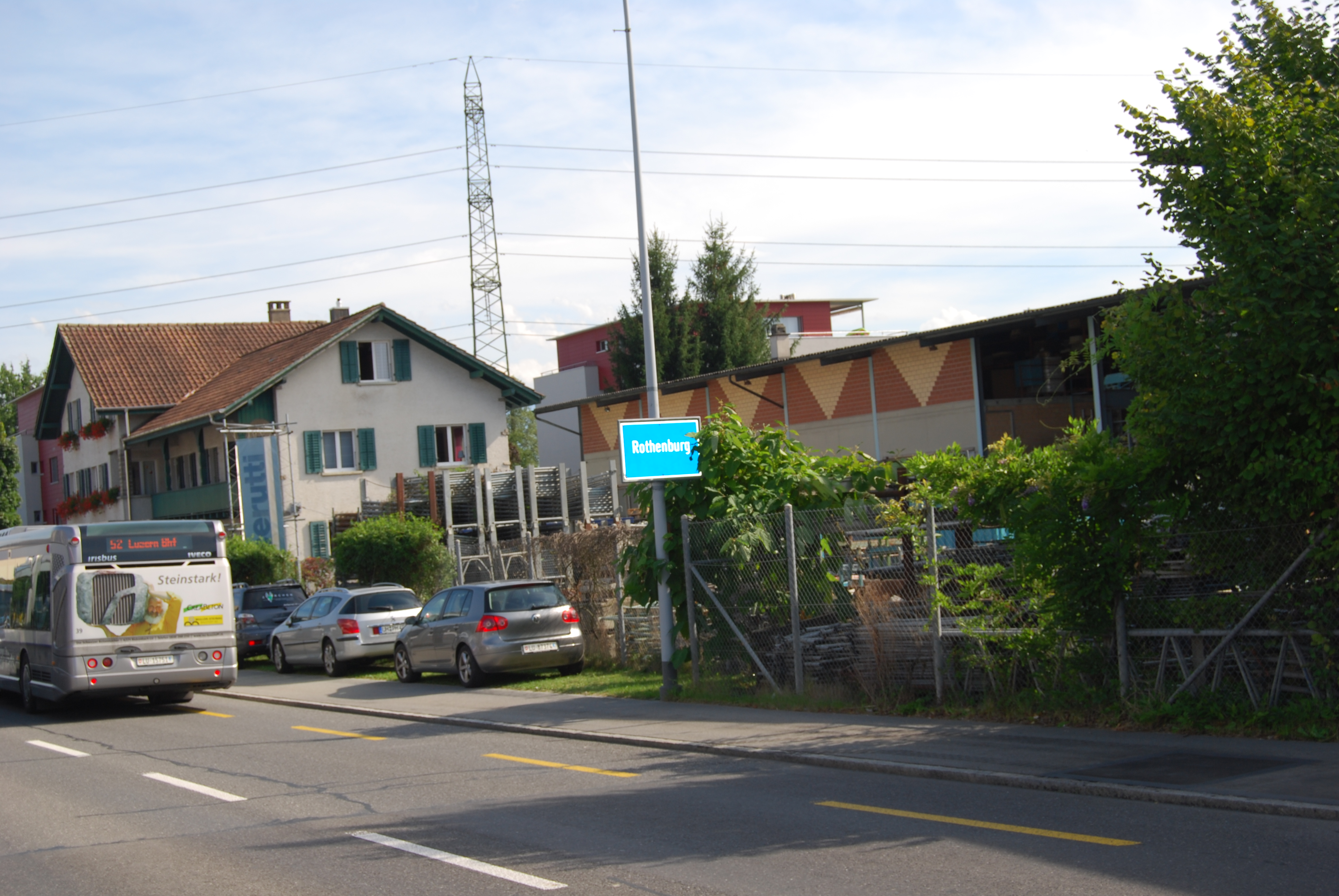 Rothenburg, canton of Lucerne, SwitzerlandEsperanto: Rothenburg, Kantono Lucerno, Svislando